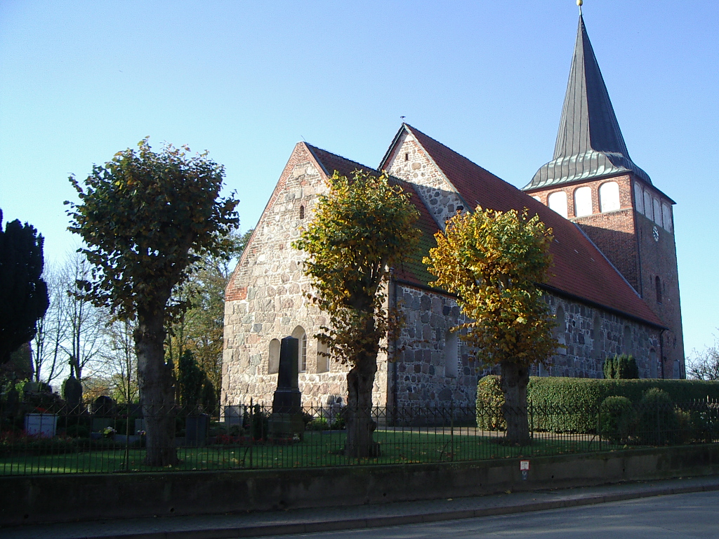 The Evangelical Lutheran St. Mary's Church in Mulsum in the Land of Wursten, Lower Saxony, Germany. Foto von Benutzer:Geoz 2005